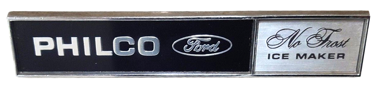 Philco Ford Refrigerator nameplate badge tag.